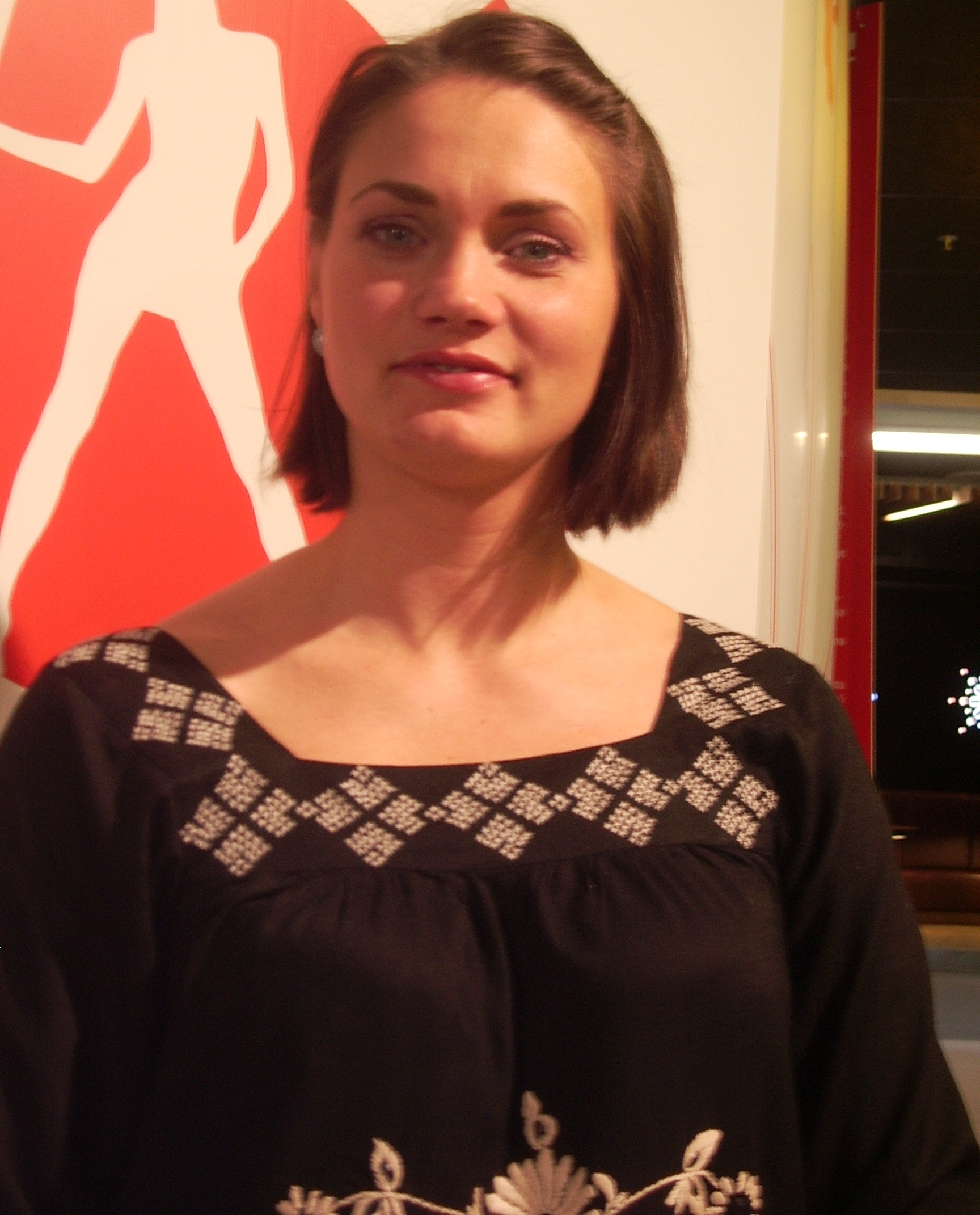 Helen Mahmastol (born 1977) is Estonian businesswoman and Miss Estonia 1997.